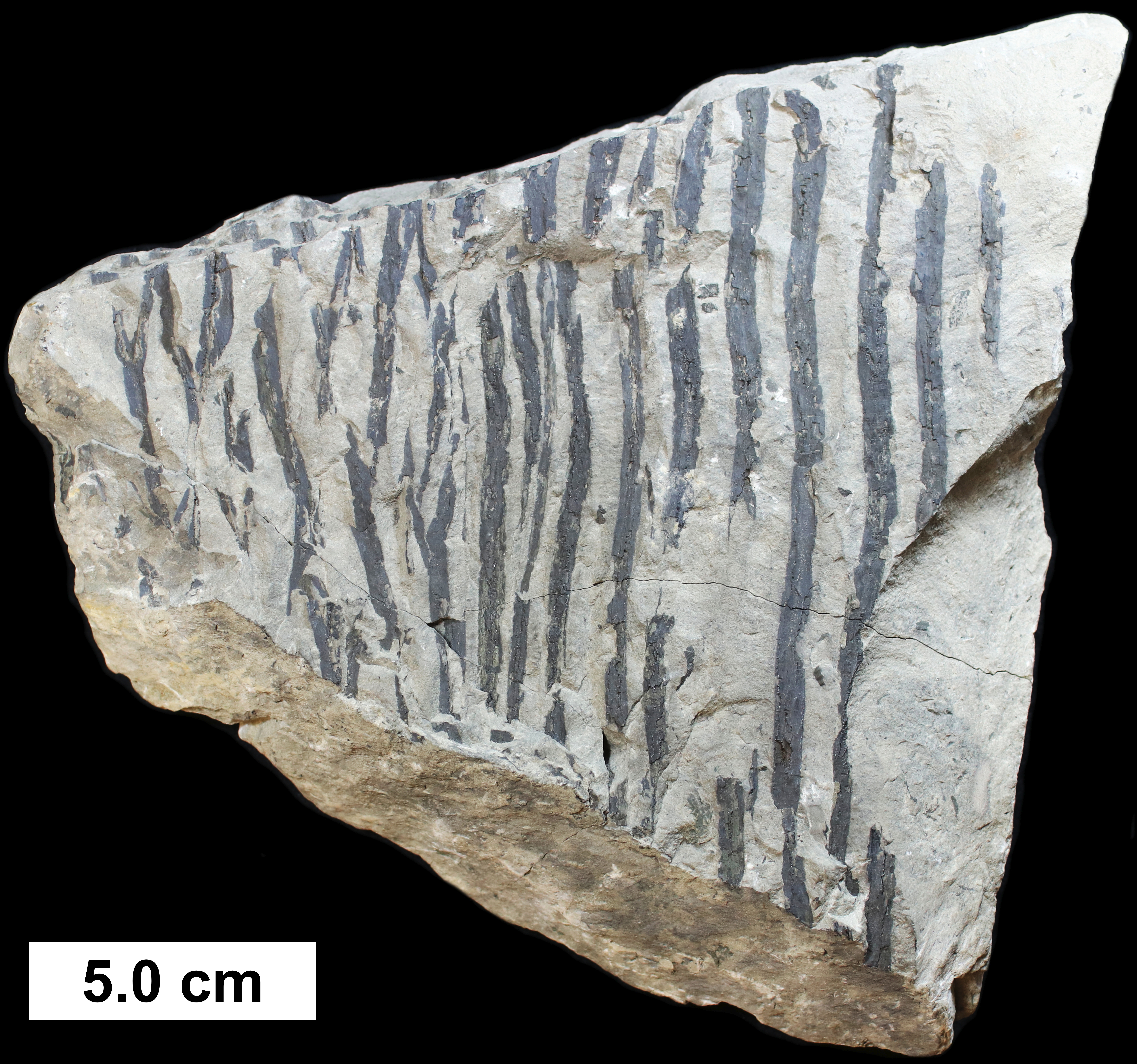 Cladoxylopsid bark, originally thought to be a marine alga and named Fucus bertheletensis Penhallow, 1908; Milwaukee Formation; Berthelet Member; Milwaukee County, Wisconsin; collected by Charles E. Monroe; MPM Pb399.1; holotype; photograph originally published in K.C. Gass, J. Kluessendorf, D.G. Mikulic, and C.E. Brett, 2019. Fossils of the Milwaukee Formation: A Diverse Middle Devonian Biota from Wisconsin, USA. Siri Scientific Press, Manchester, UK.